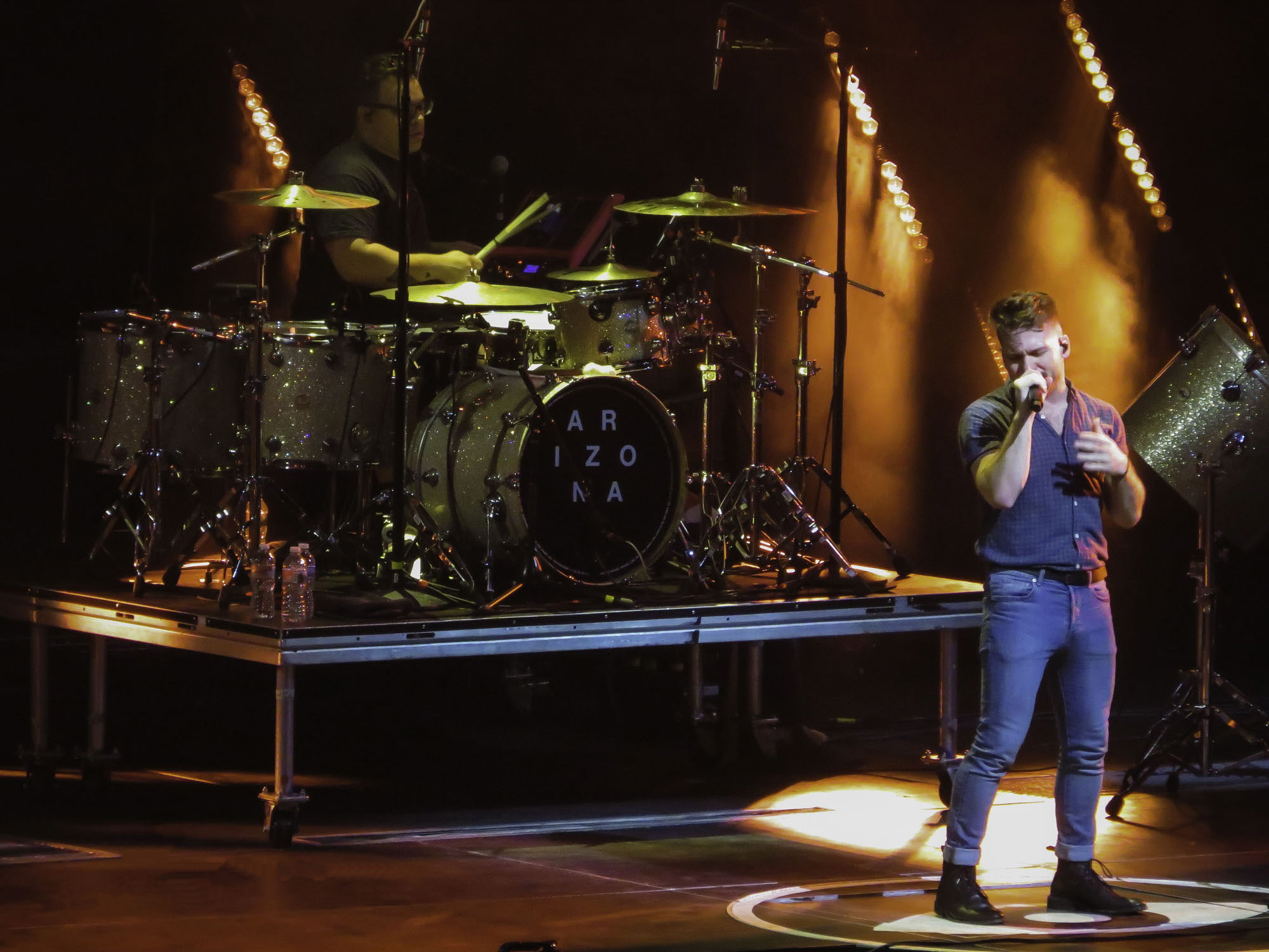 A R I Z O N A on stage during Panic! At the Disco's Pray for the Wicked Tour stop in Denver, CO at the Pepsi Center on August 7, 2018.